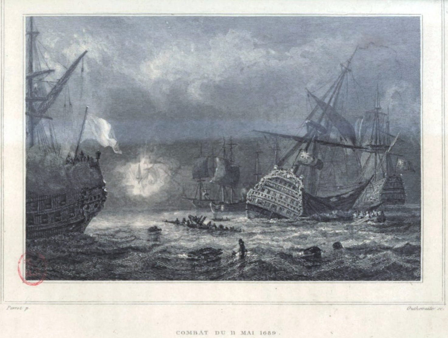 Illustration from Histoire maritime de France: the Action of 11 May 1689 (i.e. Battle of Bantry Bay)